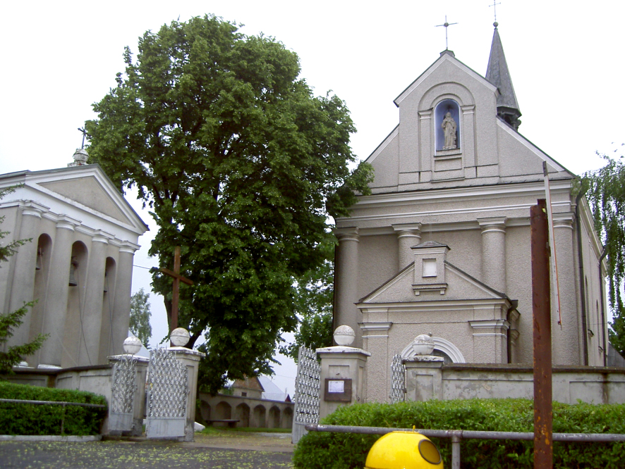 Saints Peter and Paul church in Łaszczów, Poland